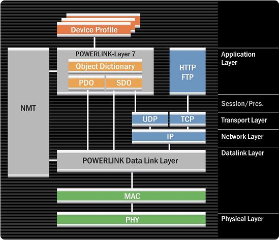 Position of Ethernet POWERLINK within the ISO model